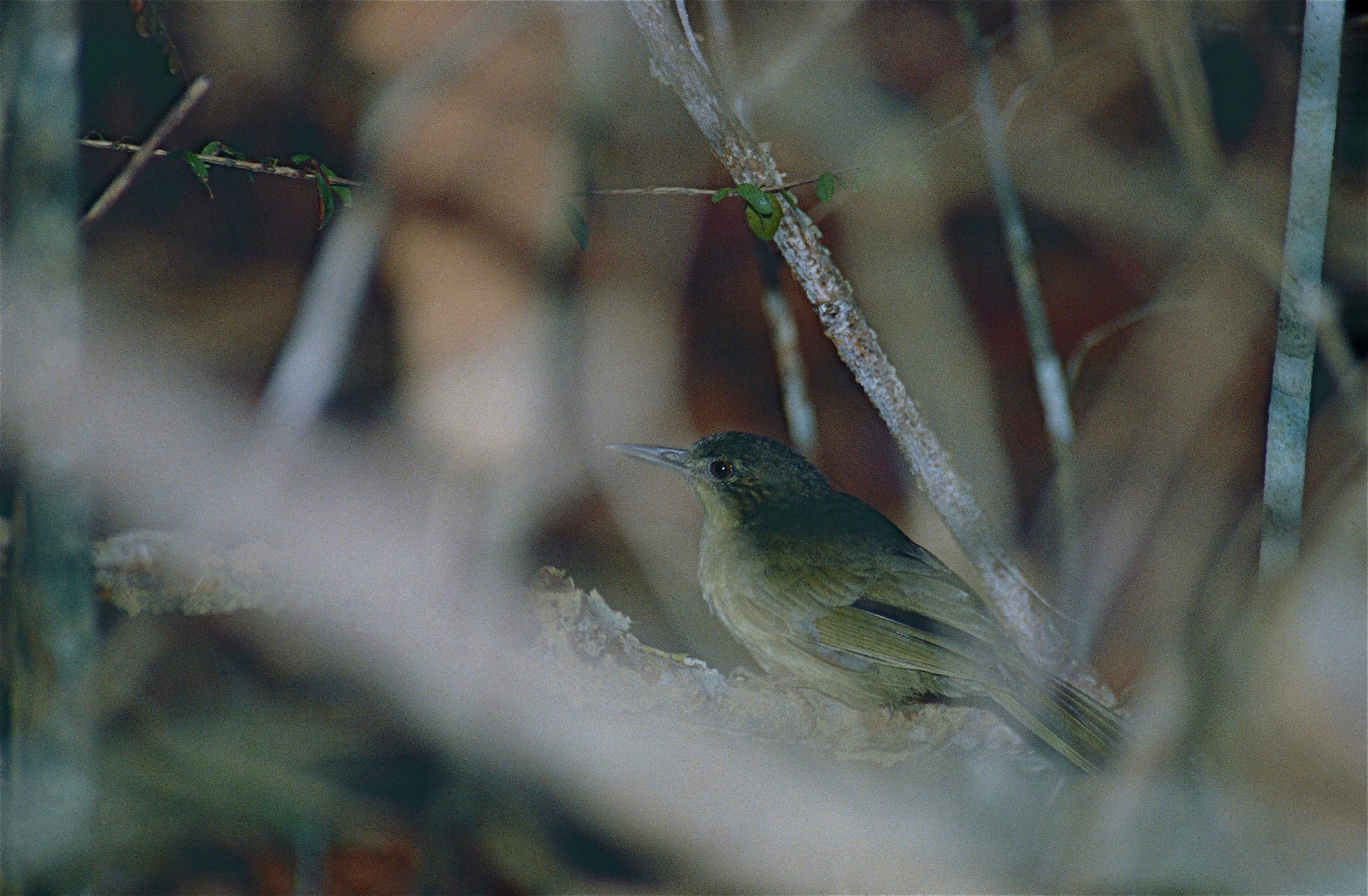 Kirindy Forest, MADAGASCAR Scanned Slide from 1998